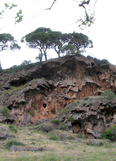 Large limestone deposit (travertine) of Holocene or Pleistocene origin. Dissolved in the water of a karst spring and then chemically precipitated.